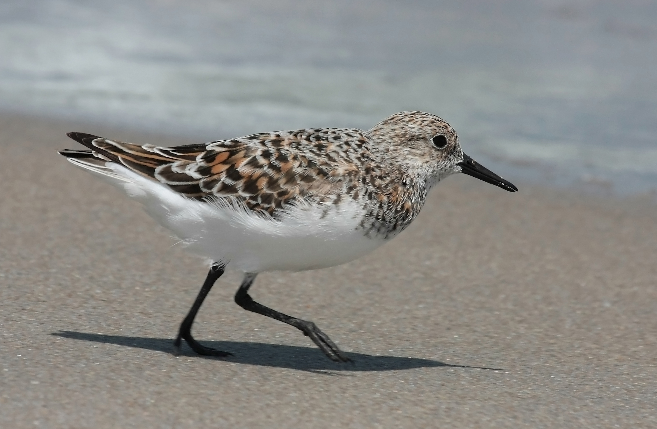 A running sanderling captured in mid stride.